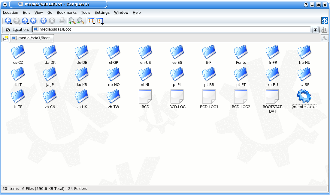 This is Konqueror, a file system manager and web browser for KDE.